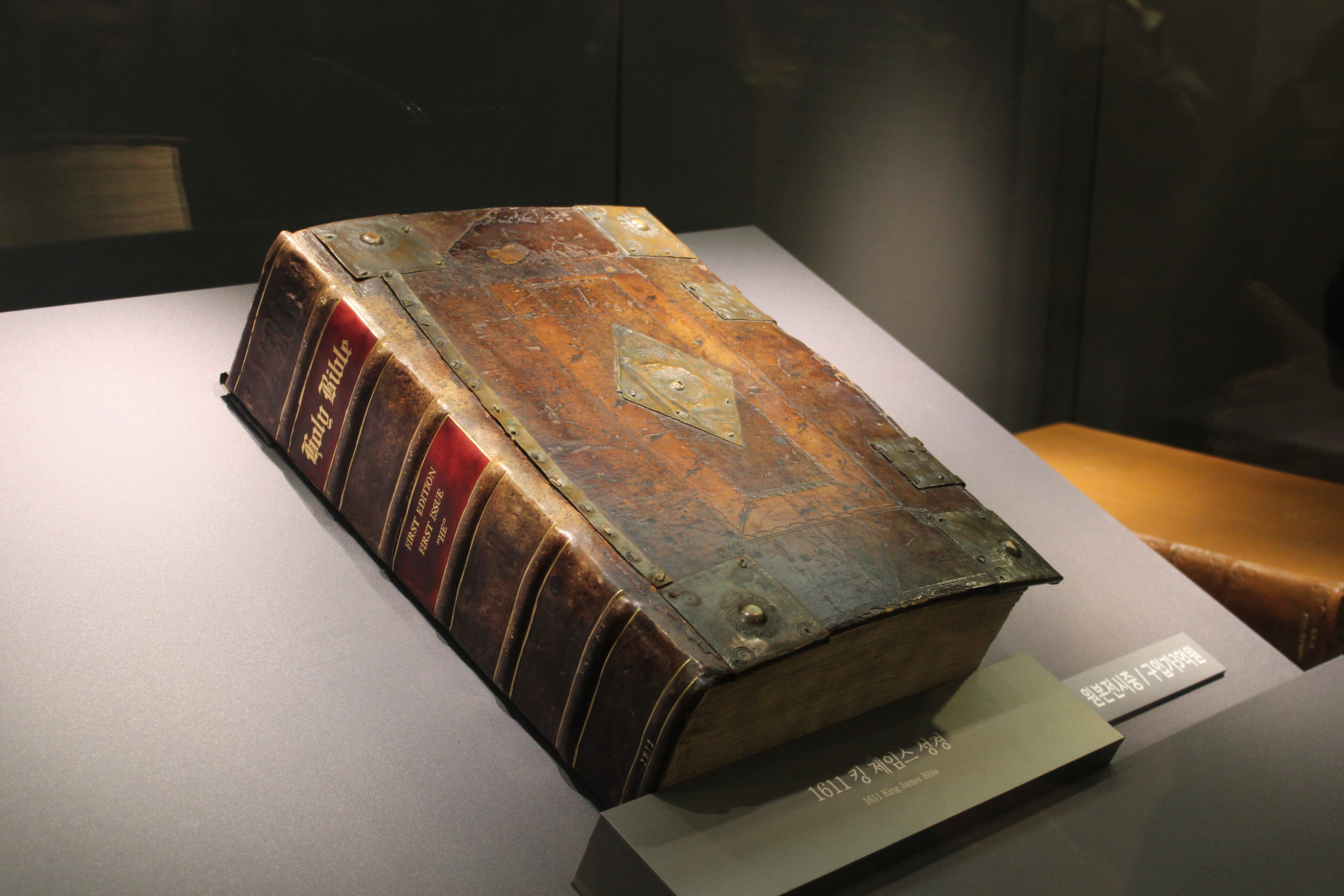 King James Bible 1611